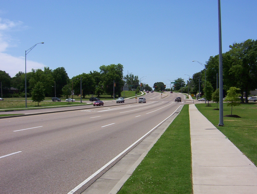 Sam Cooper Boulevard in Memphis, Tennessee. Photo taken east of Tillman Street, view to the west. The Tillman Street intersection is seen in the background.